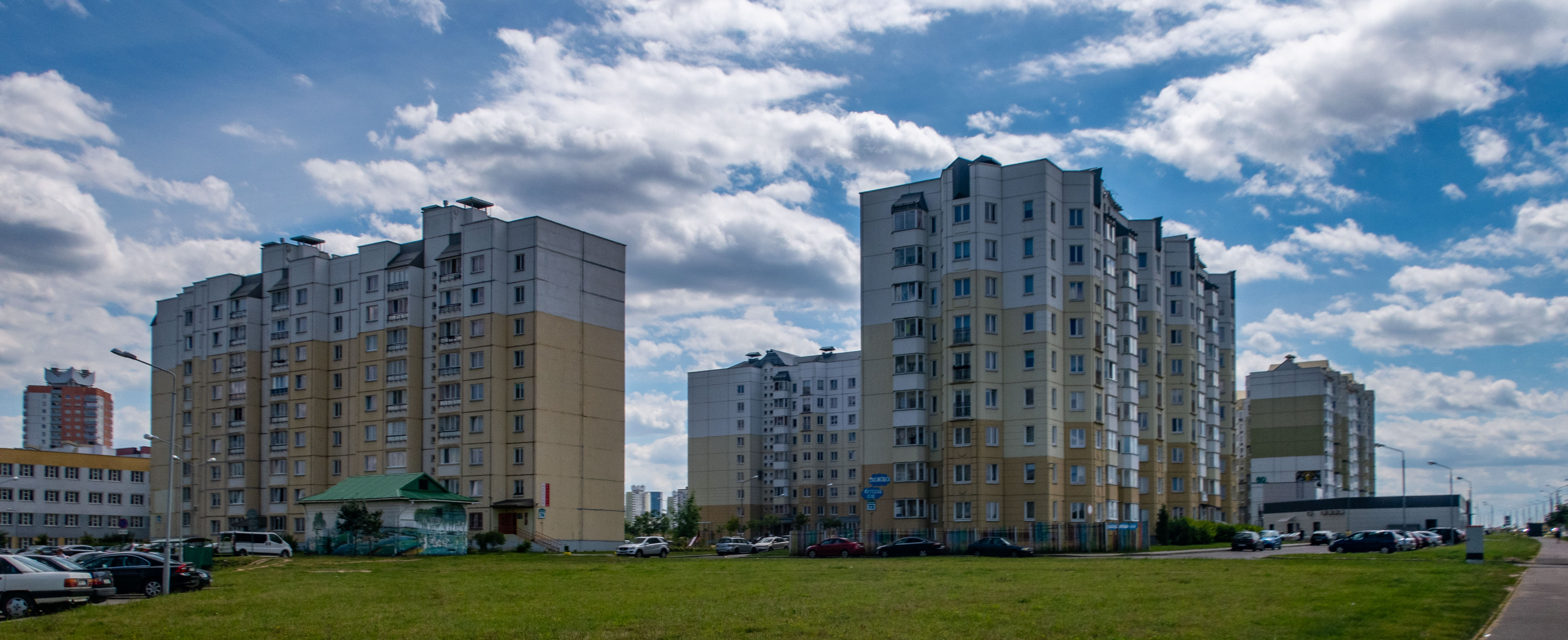 Kamiennaja Horka-4. Minsk, Belarus